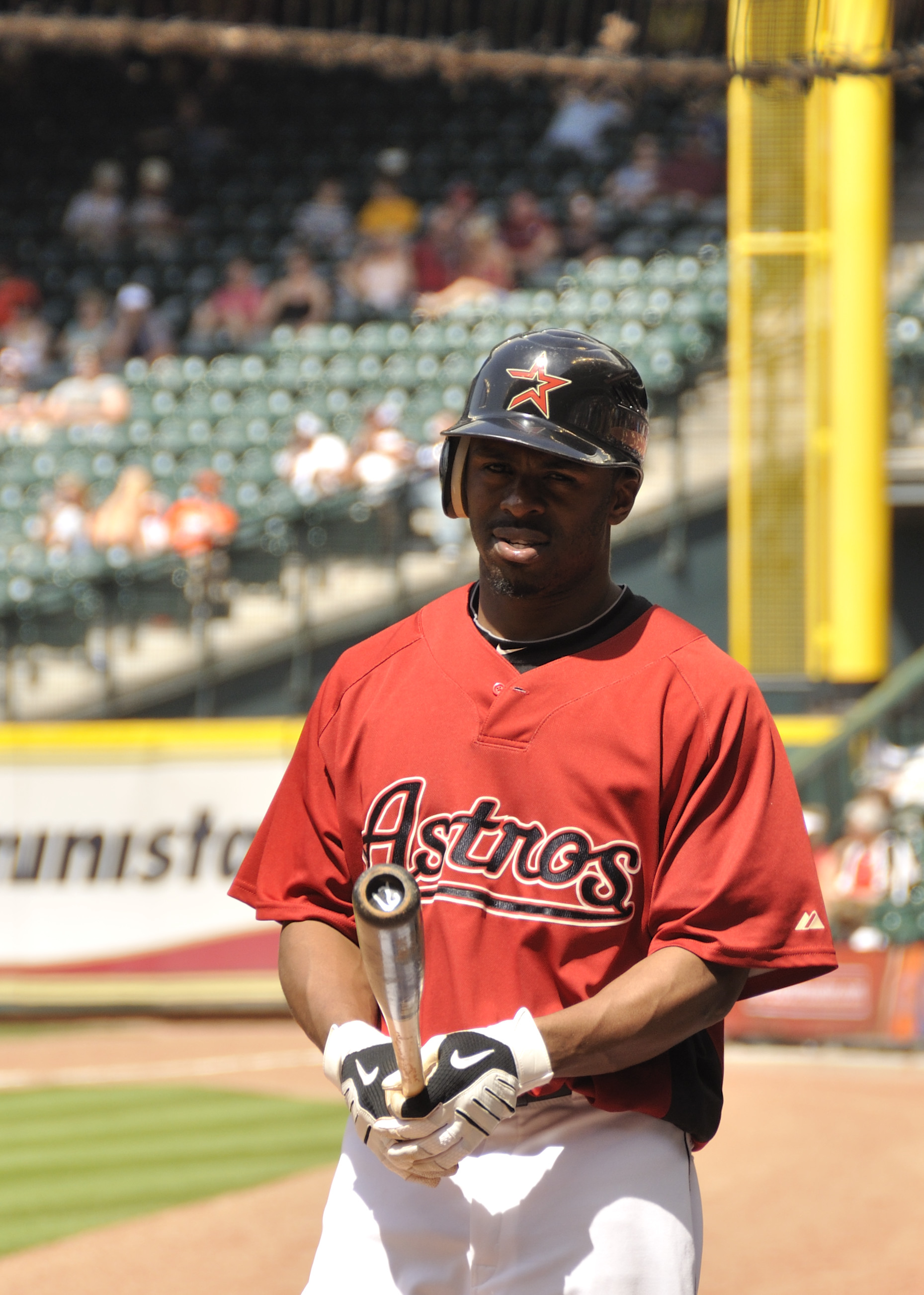 Michael Bourn